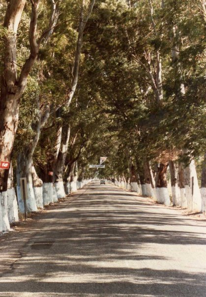 Eucalyptus Road across Gökova Plain at Gulf of Gökova's end near Akyaka, Muğla, Turkey, between Muğla and Marmaris